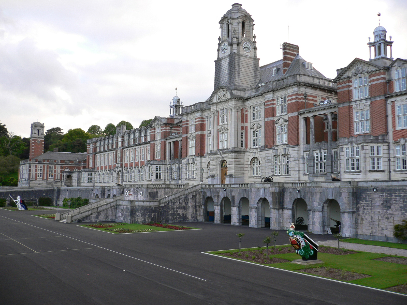 Britannia Royal Naval College. Architect : Aston Webb